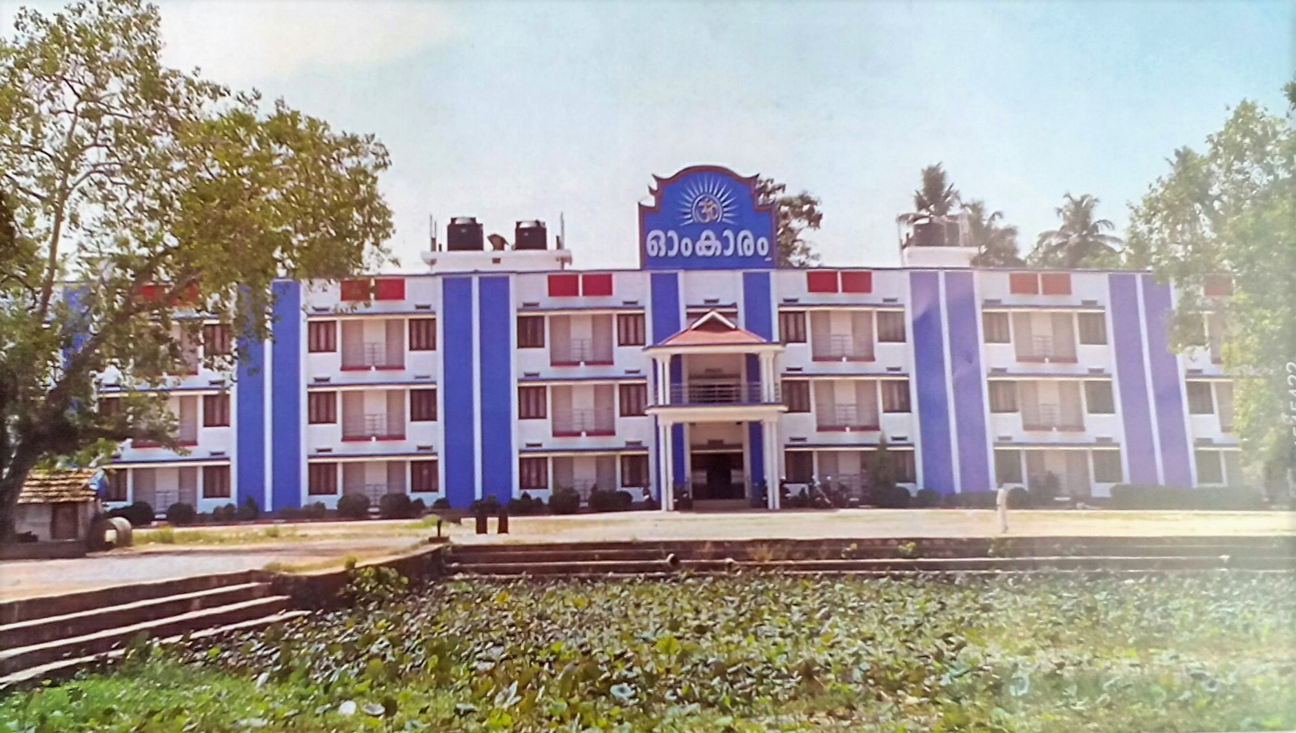 Guest-house